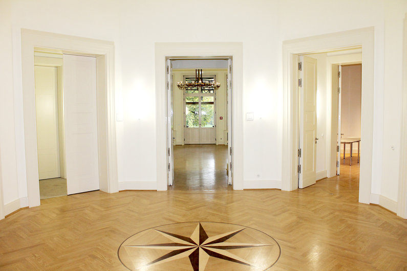 inside